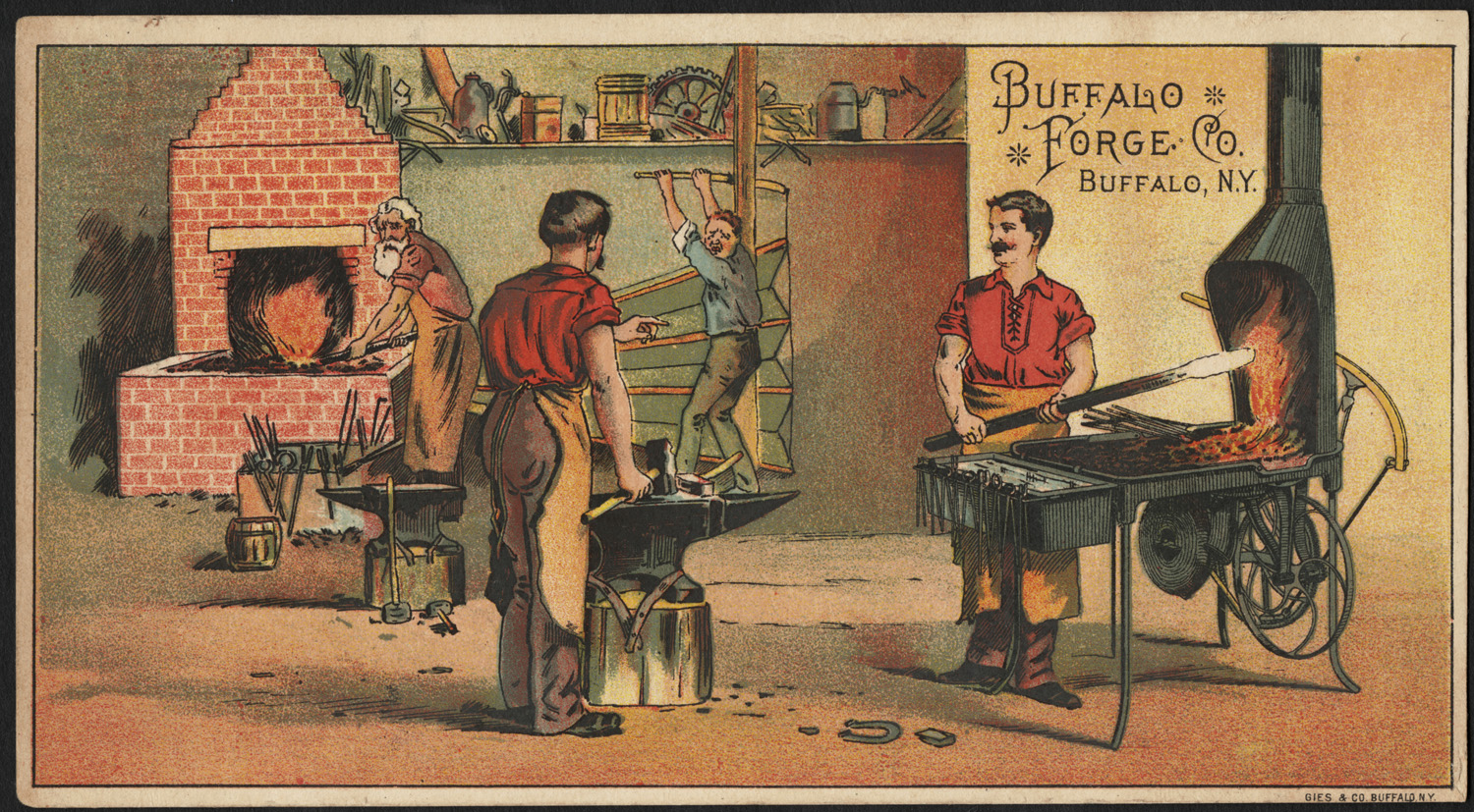 File name: 10_03_001619a Binder label: Agriculture Title: Buffalo Forge Co. (front) Created/Published: Buffalo, N. Y. : Gies & Co. Date issued: 1870-1900 (approximate) Physical description: 1 print : chromolithograph ; 9 x 15 cm. Genre: Advertising cards Subject: Men; Forge shops; Gearing Notes: Title from item. Statement of responsibility: Buffalo Forge Co. Collection: 19th Century American Trade Cards Location: Boston Public Library, Print Department Rights: No known restrictions.